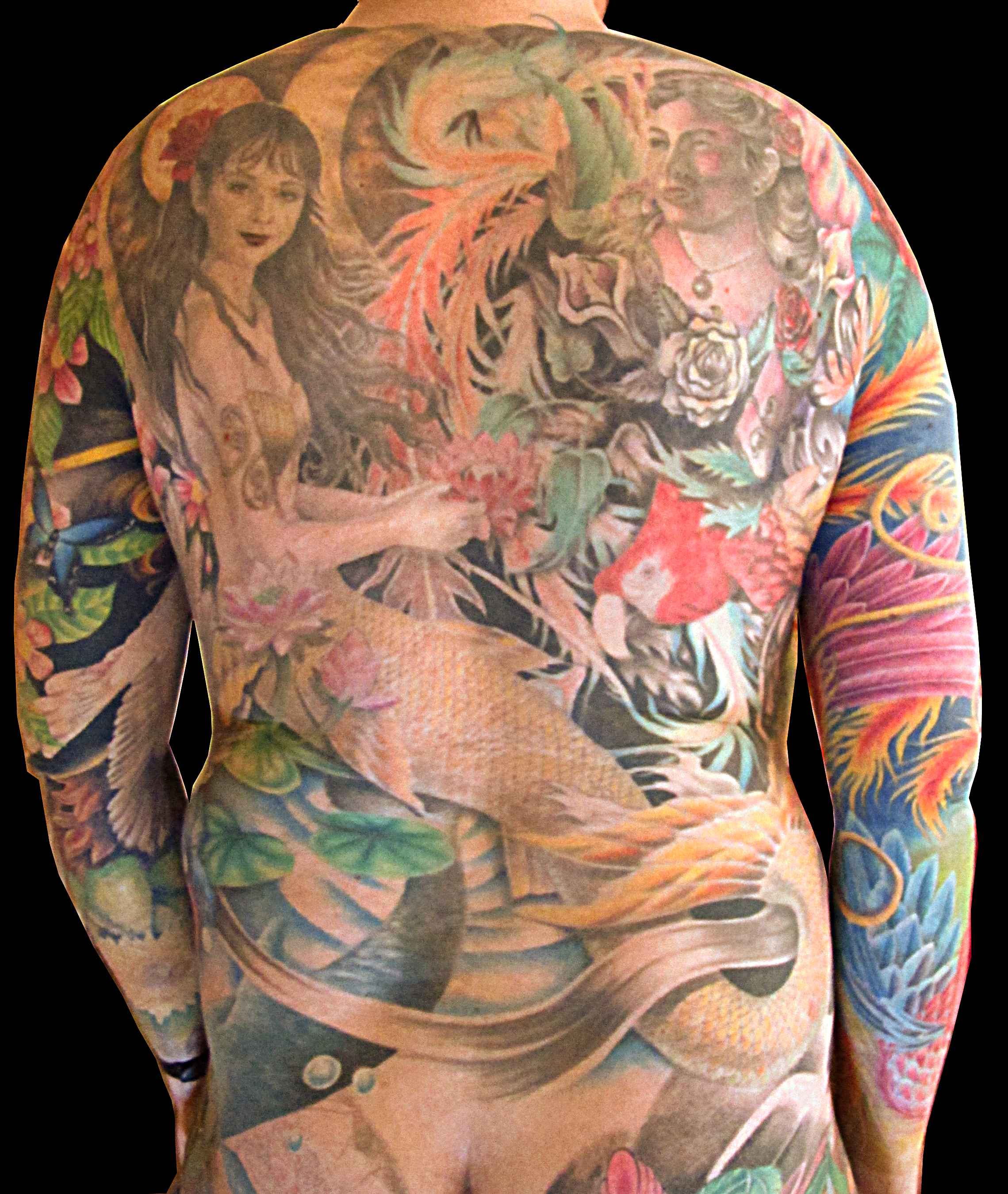 Menno's backpiece, as part of a full body suit tattooed by Ezequiel (Mallorca), Claudia (Amsterdam), Maaika (Heerenveen, NL) and Patrick (Chester, UK).